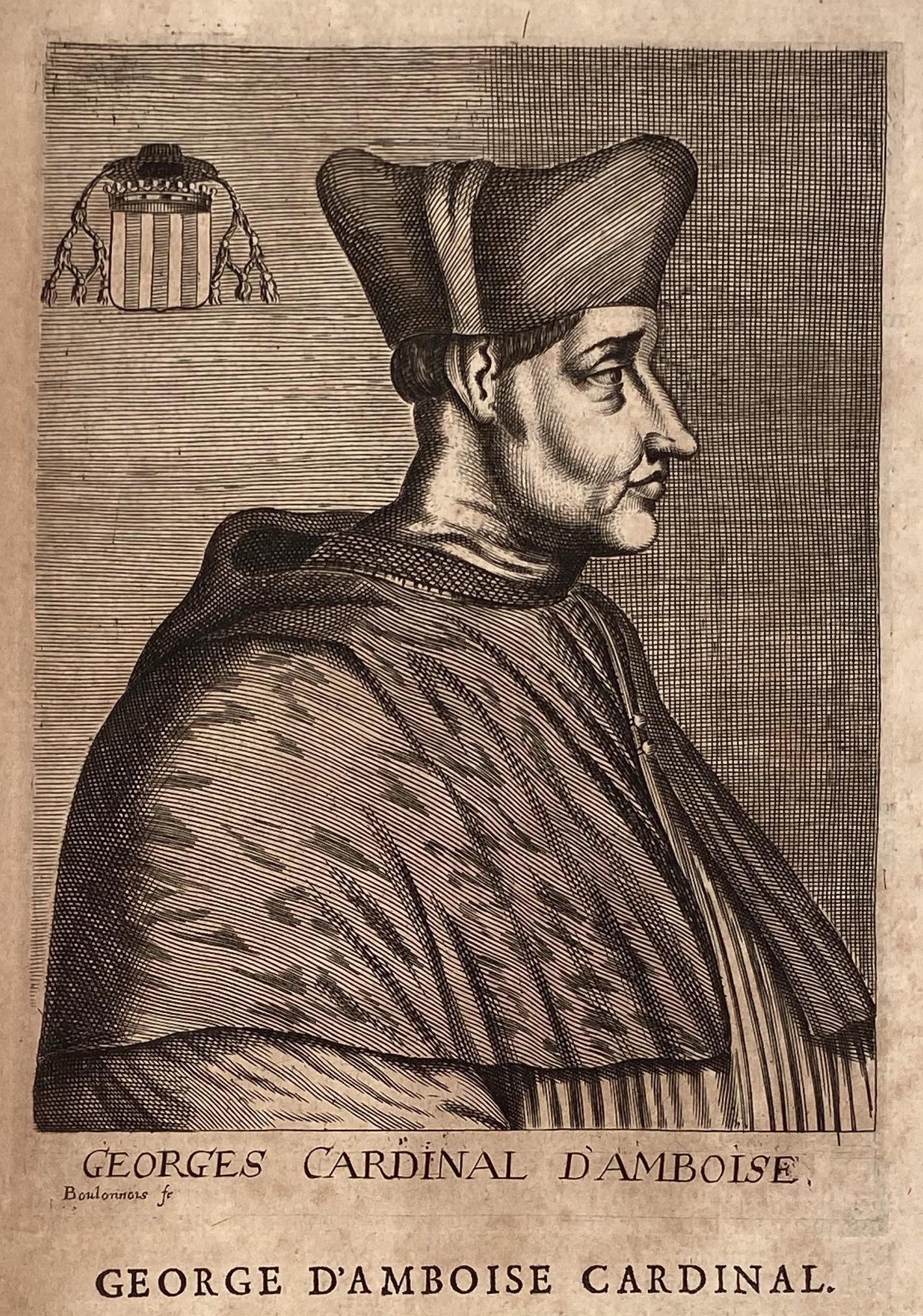 Half-length portrait of Georges d'Amboise, cardinal, facing to the right. Engraved by Esme de Boulonnois. Isaac Bullart. Académie Des Sciences Et Des Arts. - Amsterdam: Elzevier, 1682.